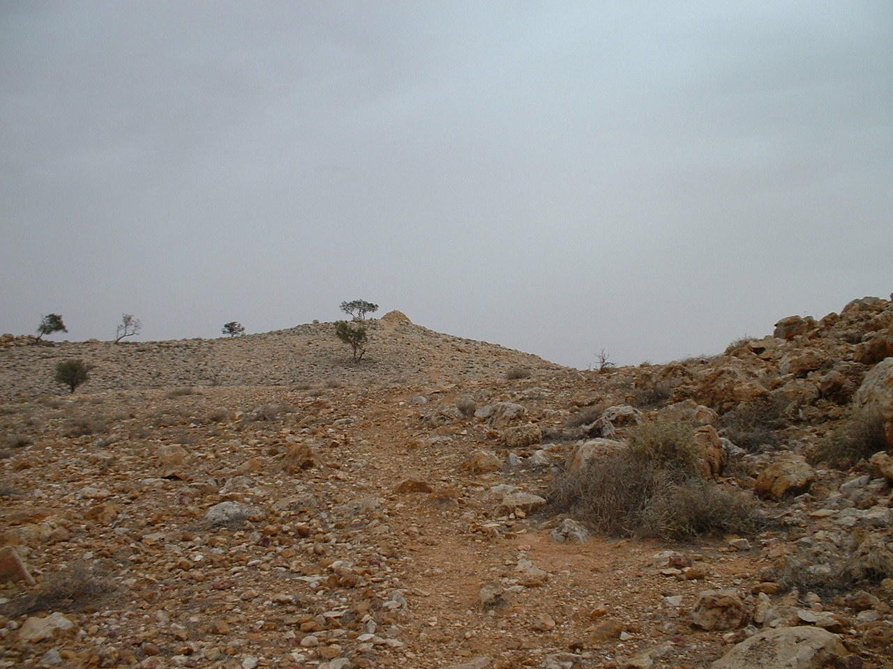 View towards summit of Mount Poole, New South Wales. Sturt's rock cairn (1845) is just visible at the top.